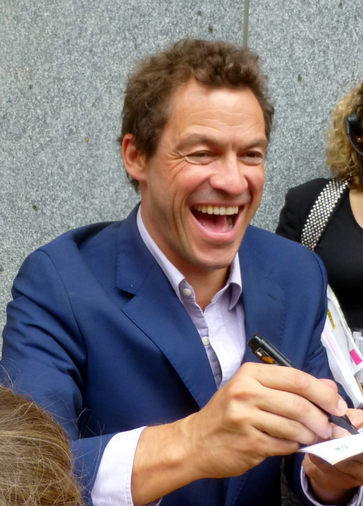 Dominic West at the premiere of Pride, 2014 Toronto Film Festival